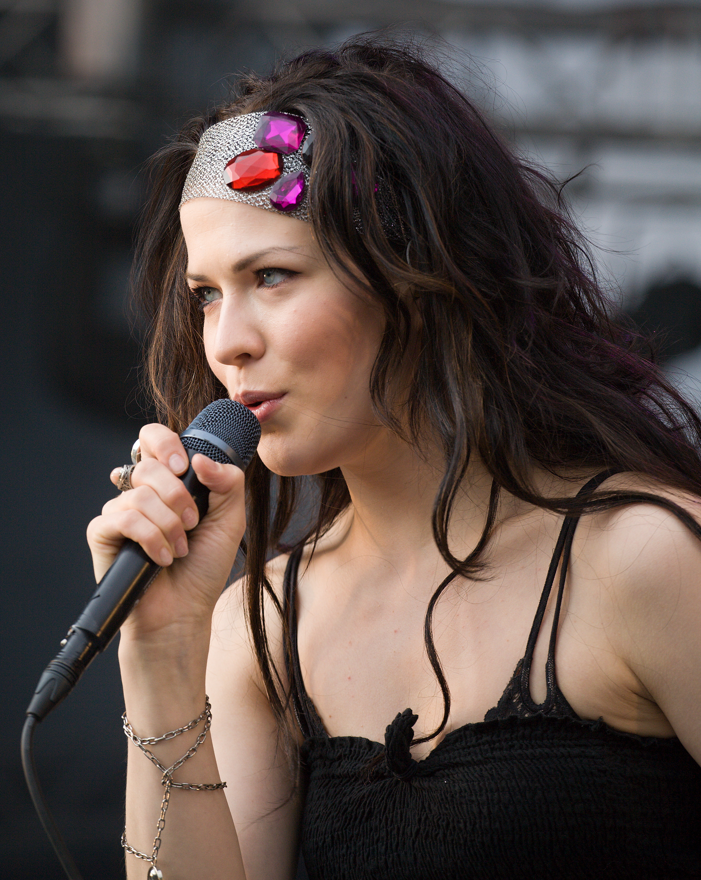 Jenni Vartiainen, a Finnish pop singer at Himos Festival 2008 in Finland.